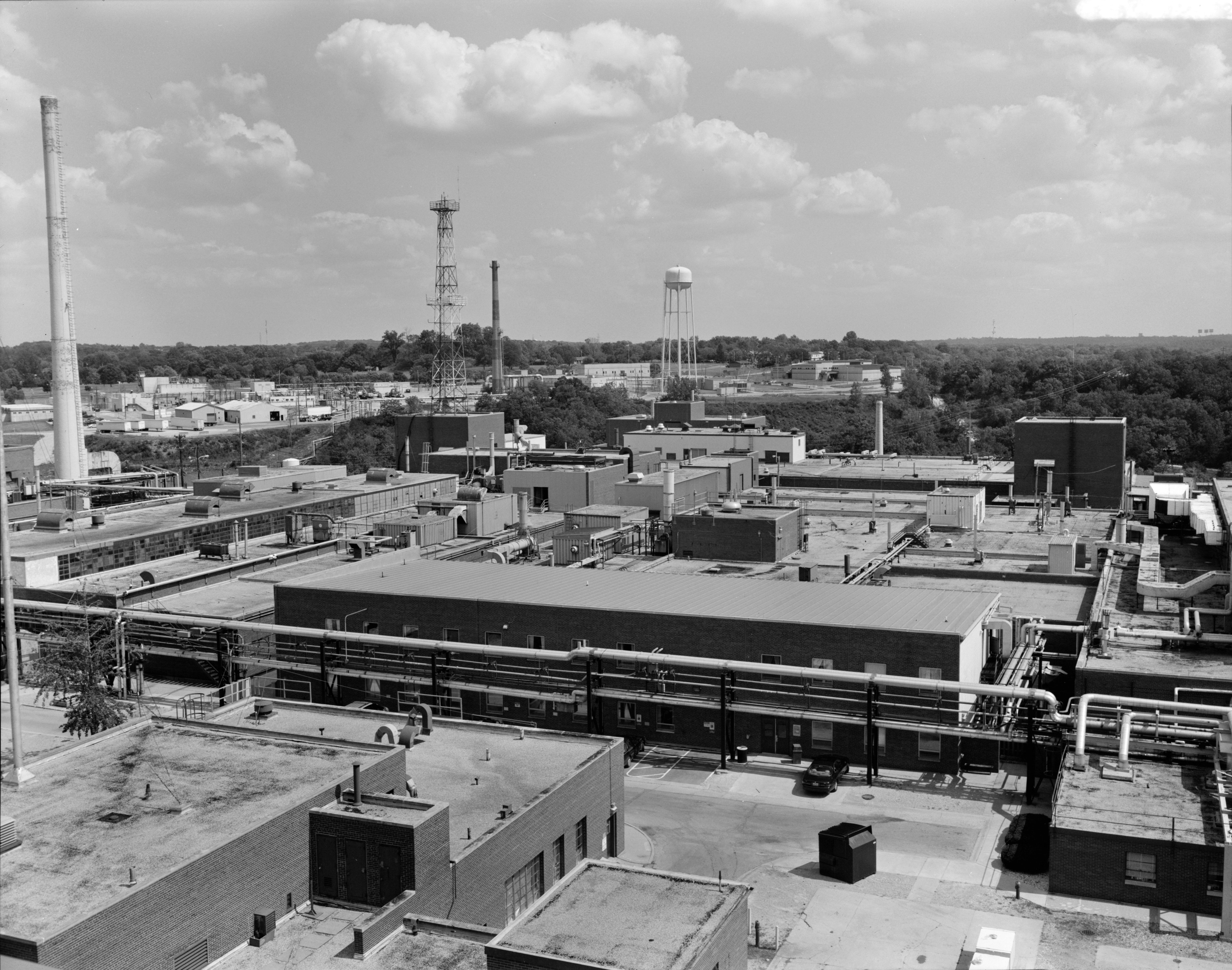 Department of Energy, Mound Laboratories, Electronics Laboratory Building (E Building), One Mound Road, Miamisburg, Ohio. E Building is significant for its operational role in the polonium processing mission of the Mound Laboratory, polonium having importance in the 1940s for its use in nuclear weapon manufacture and atomic energy. As the building changed form and use throughout the Mound Site's history, it reflects the different phases of activity in its physical structure. During the polonium processing era, the building was involved directly with processing as well as offered operational support to the Mound Laboratory. E Building provided efficient facilities for the repair, design, and assemblage of electronic instruments and contained radiation count laboratories equipped with electronic instrumentation to measure radiation activity levels in samples collected from Mound Laboratory.